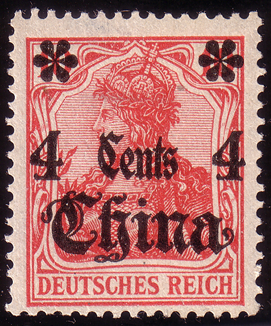 Postage stamp of German offices in Chinese empire, 4 cents, 1905, Michel N°30.